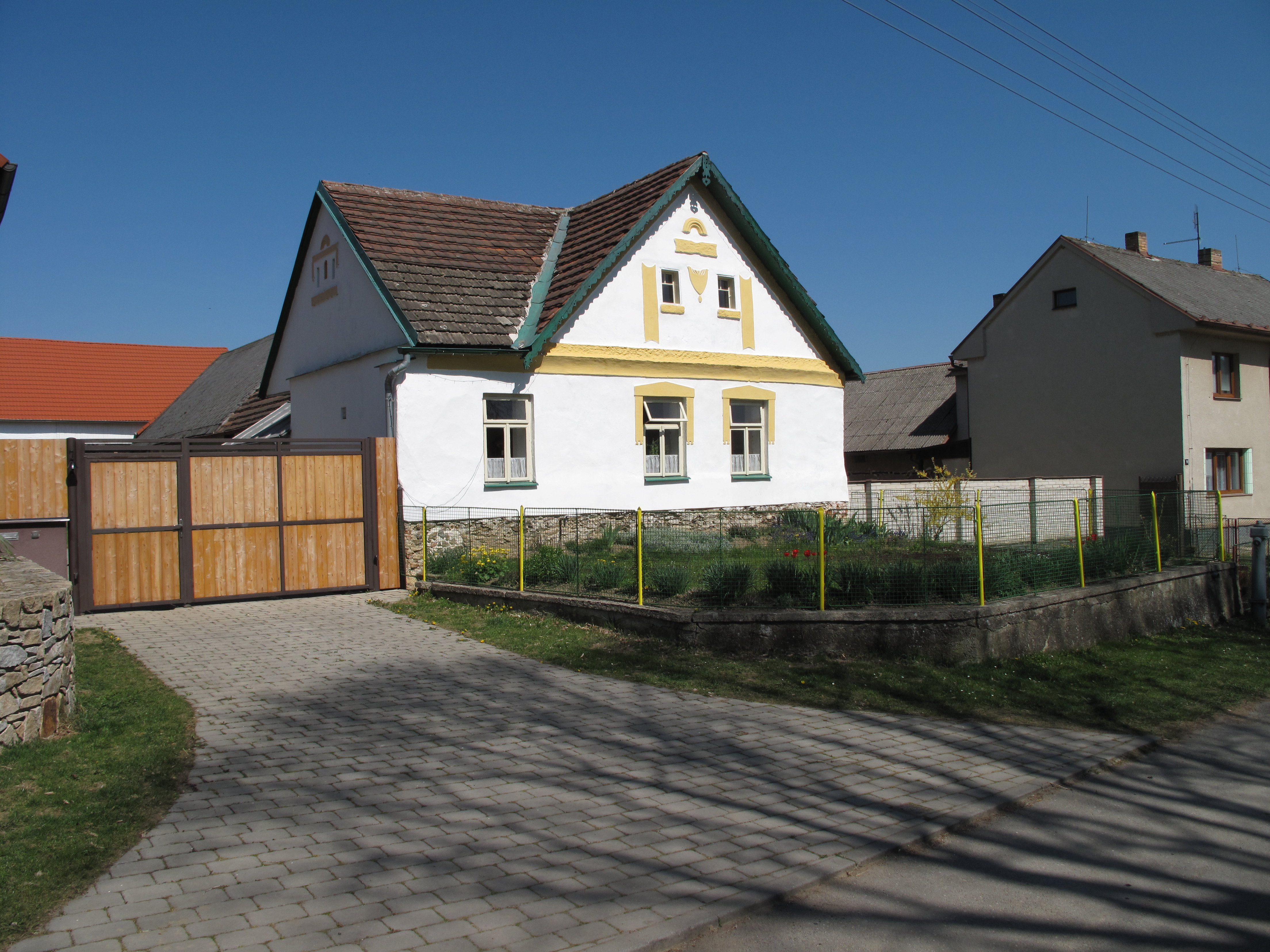 House in Běleč (okres Tábor).